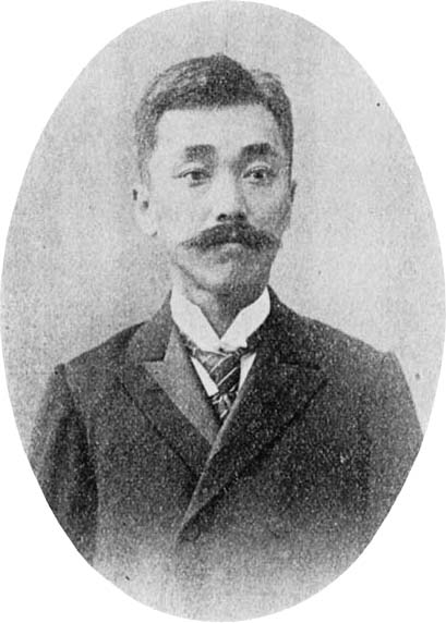 Mr. Ippei Inagaki.